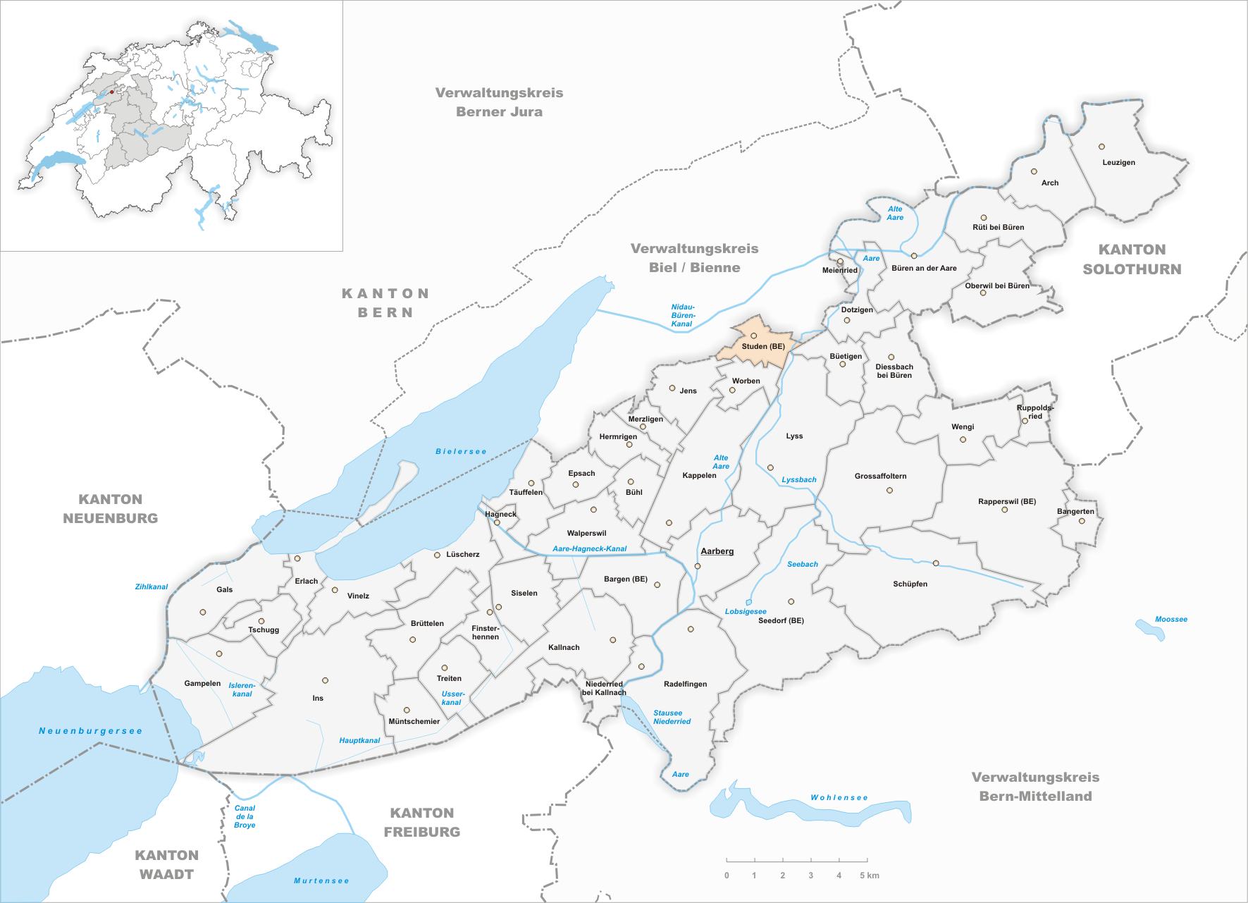 Municipality Studen